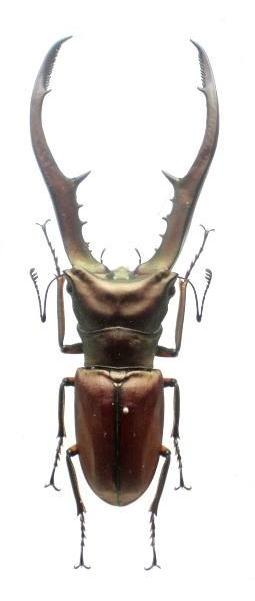 cyclommatus metallifer metallifer